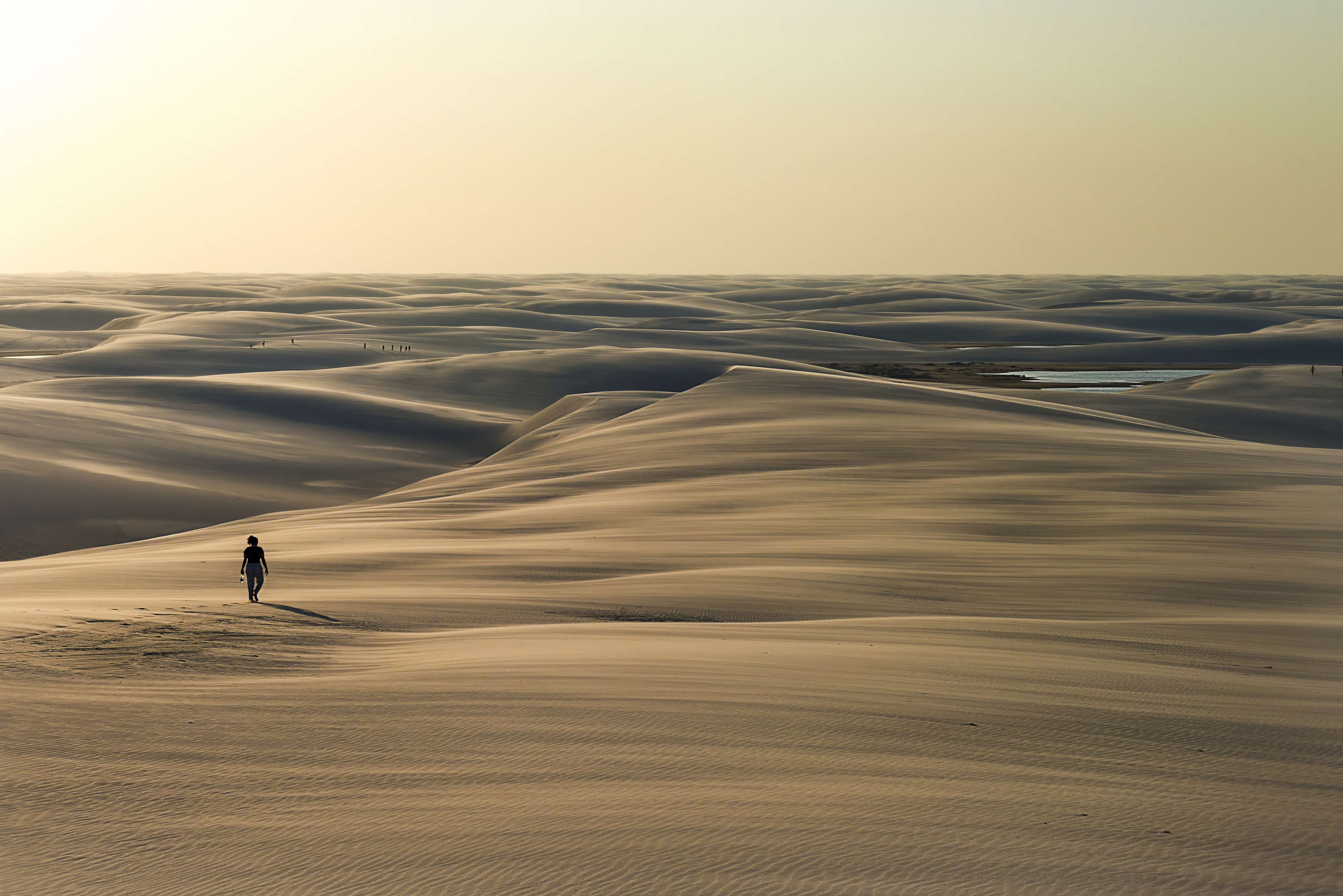 Dunes, Lençóis Maranhenses National Park, Maranhão.